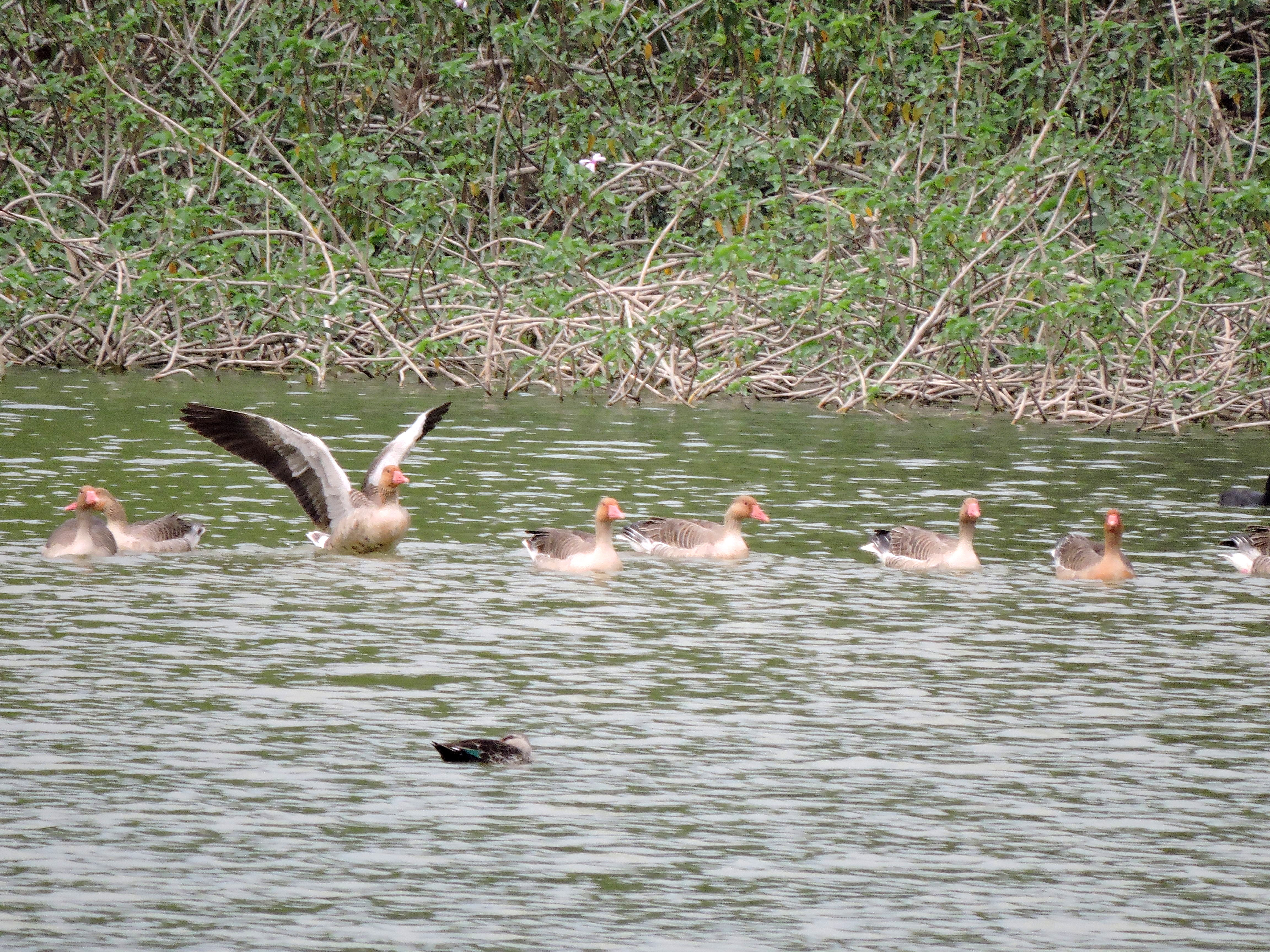 Greylag goose,Sukhna Lake, Chandigarh,India